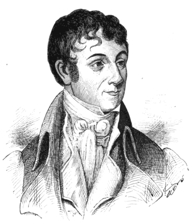 Image of American writer Charles Brockden Brown. From A Manual of American Literature by James Brady Smiley, published by American book company, 1905.